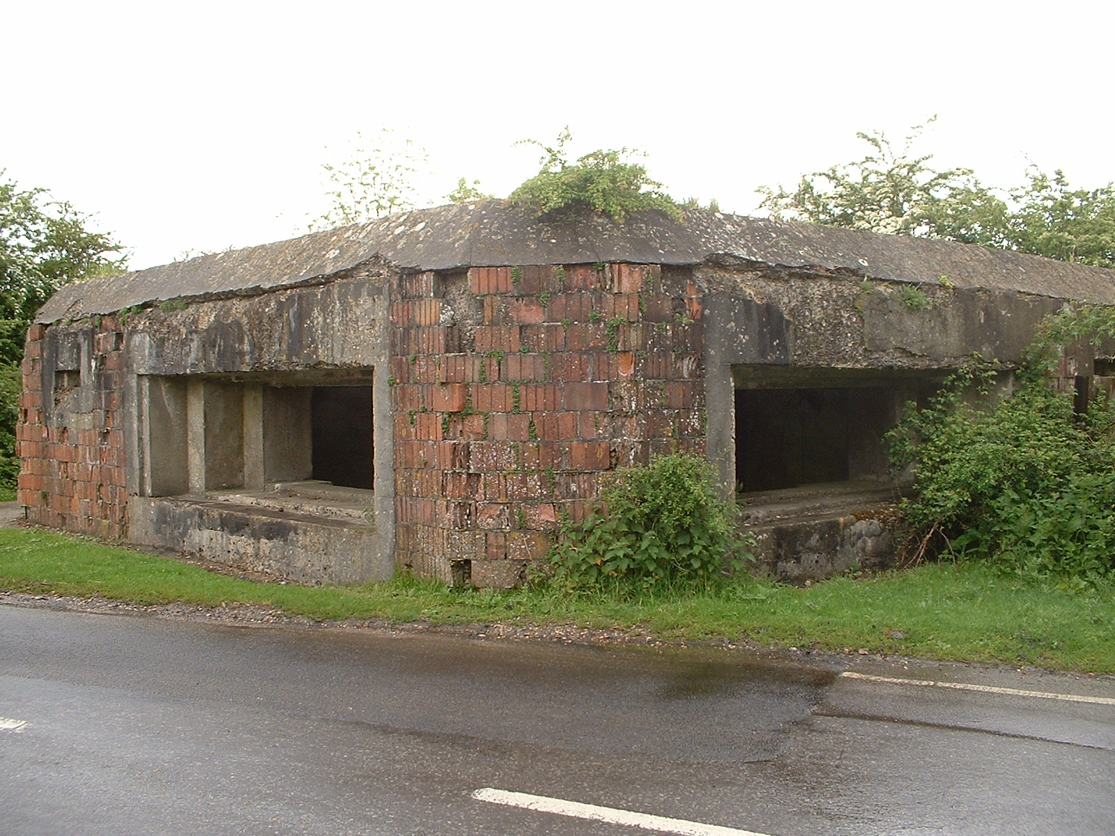 Type 28A adjacent. Pillbox type 28A seen from front reference SU350681. Just north of the bridge over the railway. Good condition, easy access. Photographed by me (Gaius Cornelius 19:47, 17 May 2006 (UTC)) on 17-May-06. OS reference SU350681